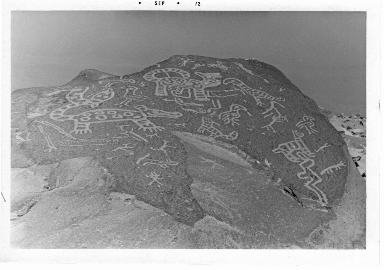 These petroglyphs are at the site of Toro Muerto in southern Peru. The site is in a desert in the Majes valley about 170 km from Arequipa. Some archaeologists believe the carvings were made by the Wari culture over 1,000 years ago, and perhaps added to by subsequent societies. I took these photos when I visited Toro Muerto in 1972. I understand the site has suffered destruction since then, and is threatened by development today. A few descriptions I have read recently say the carvings are widely scattered and are few and far between. This differs from my recollection of 35 years ago. It seemed to me there were petroglyphs everwhere you looked. hese petroglyphs are at the site of Toro Muerto in southern Peru. The site is in a desert in the Majes valley about 170 km from Arequipa. Some archaeologists believe the carvings were made by the Wari culture over 1,000 years ago, and perhaps added to by subsequent societies. I took these photos when I visited Toro Muerto in 1972. I understand the site has suffered destruction since then, and is threatened by development today. A few descriptions I have read recently say the carvings are widely scattered and are few and far between. This differs from my recollection of 35 years ago. It seemed to me there were petroglyphs everwhere you looked.